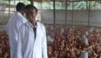 A Rhema University student, taking practical lessons at the University Poultry Farm